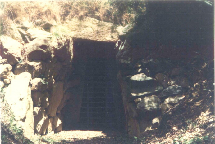 Mt. Takakurayama-kofun at Sanctuary of Toyoukedaijingu (Geku) at Ise city, Mie Prf., Japan.